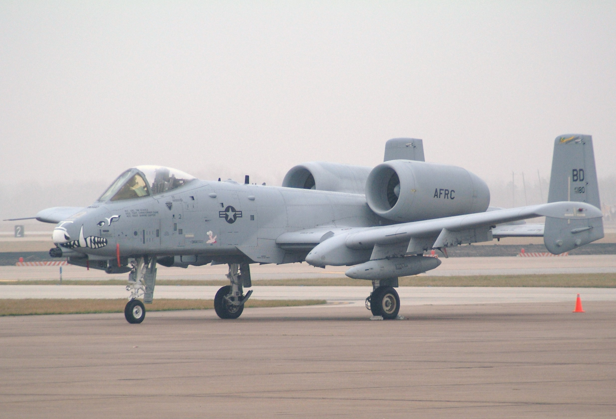 This Barksdale bird had popped across from Louisiana to Ellington one foggy Sunday morning. I have a note that it was named 'Joe' in September 2008. That doesn't look like any Joe I know on the fuselage!